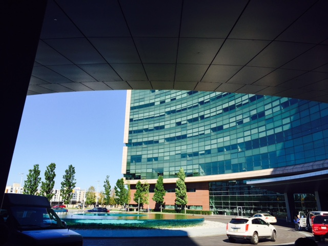 A view of the main entrance and infinity pool in front of Cleveland Clinic's Miller Family Pavilion